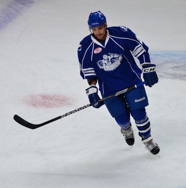 J. T. Brown, in a game between the Hamilton Bulldogs and the Syracuse Crunch at the Bell Centre of Montreal.